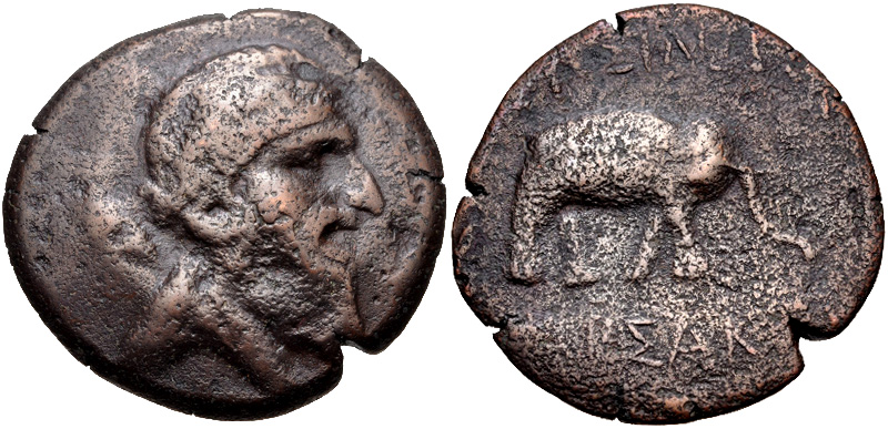 Coin of Mithridates I of Parthia, Hamadan mint. Elephant standing on the reverse.